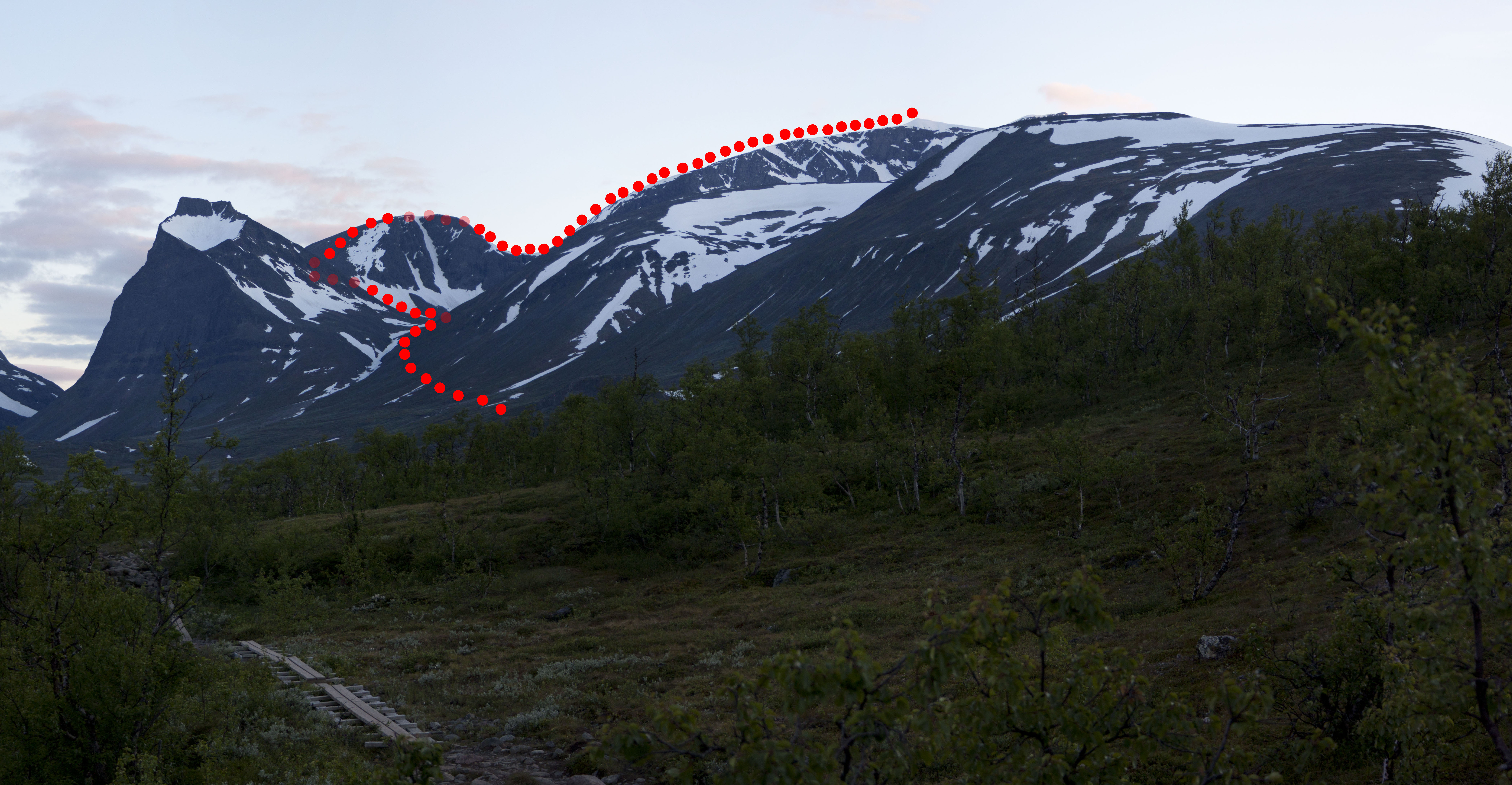 Kebnekaise and the western passage (västra leden) marked with red dots.